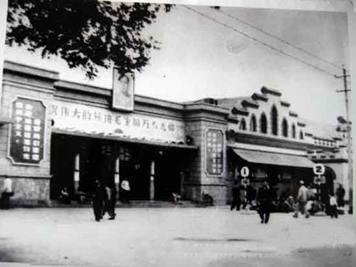 Tangshan Railway Station in 1966